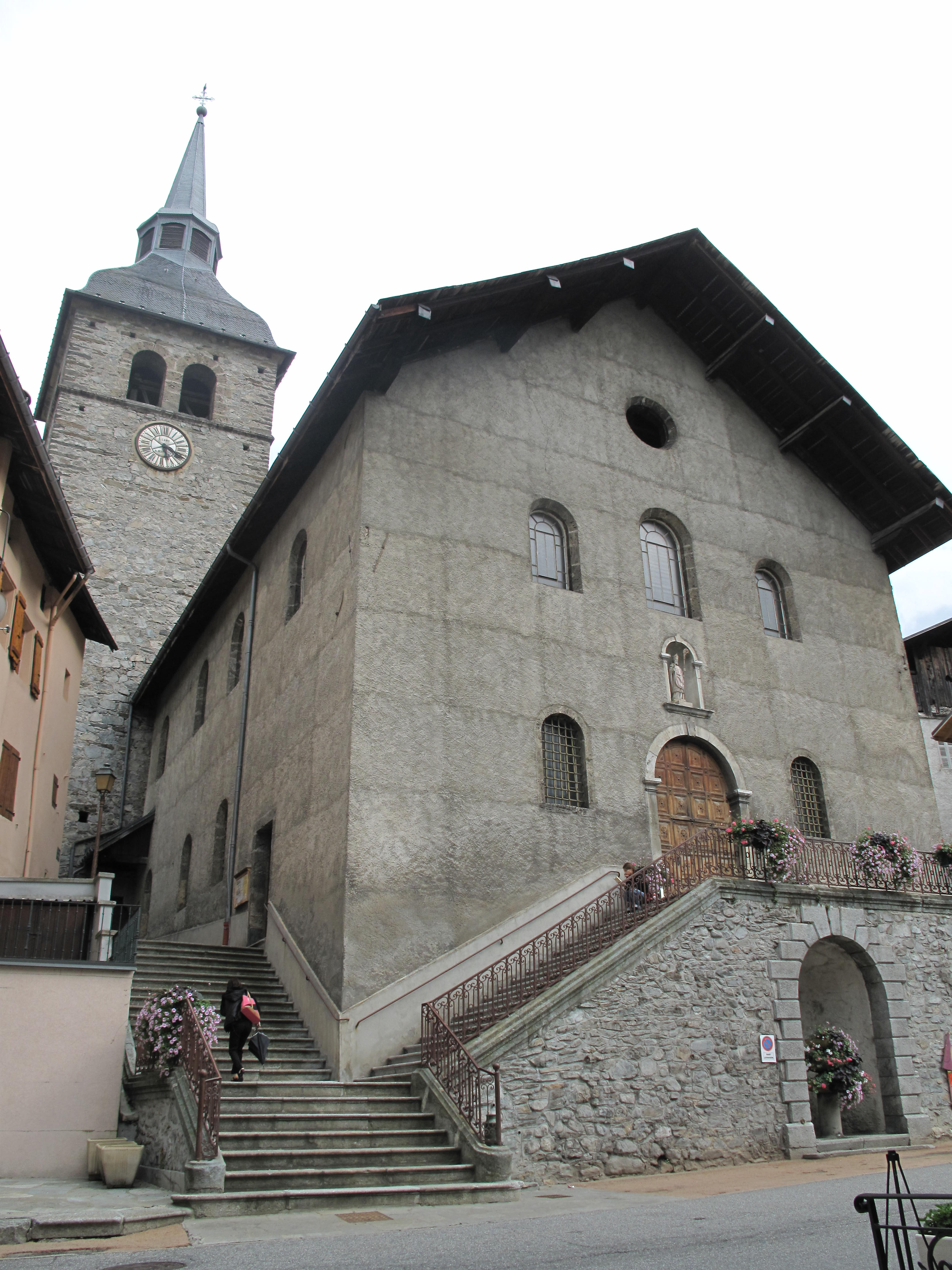 The church of Saint-Maxime in Beaufort-sur-Doron (Savoie), France.